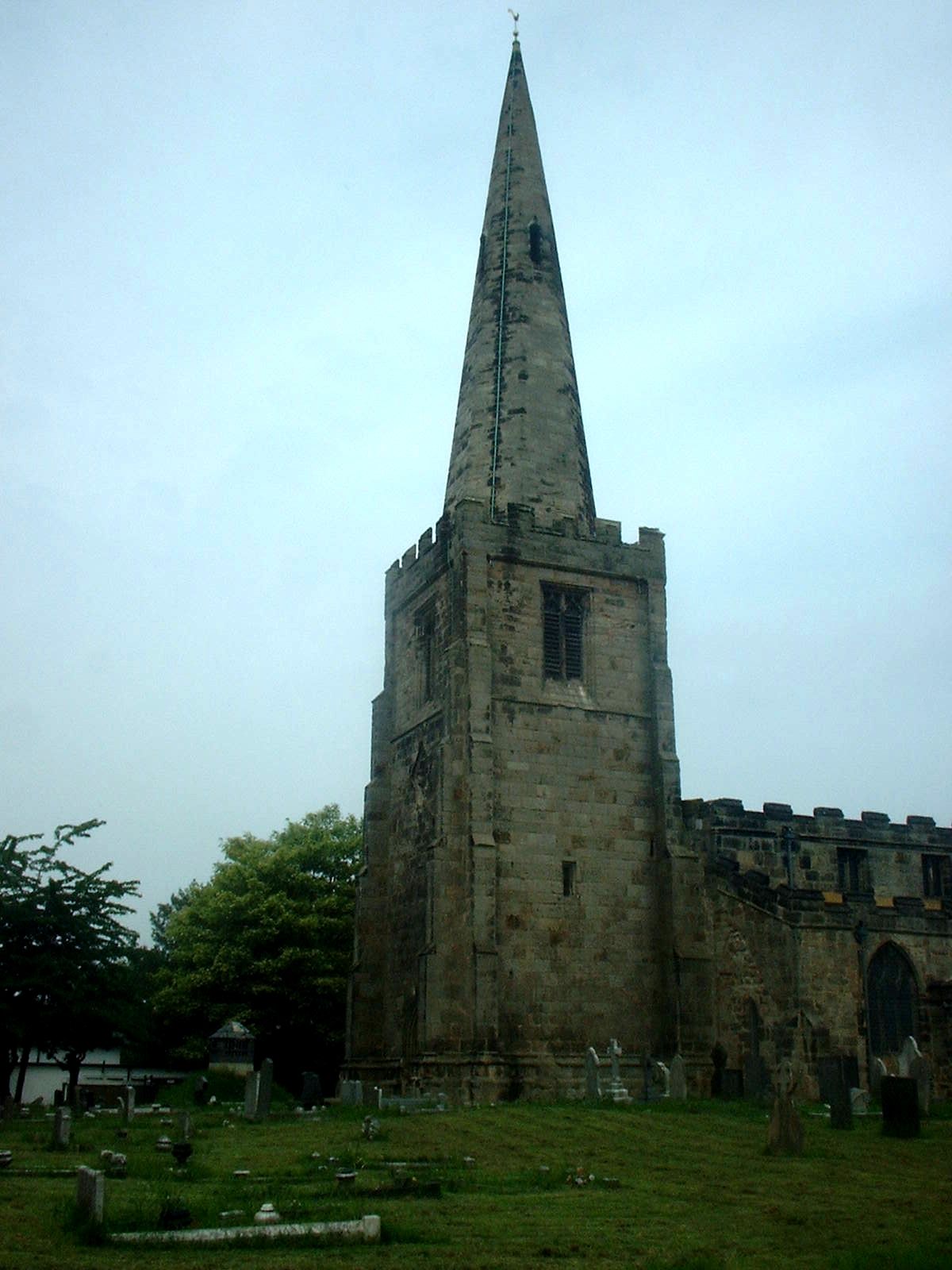 Sawley Church South derbyshire. It is "All Saints" church